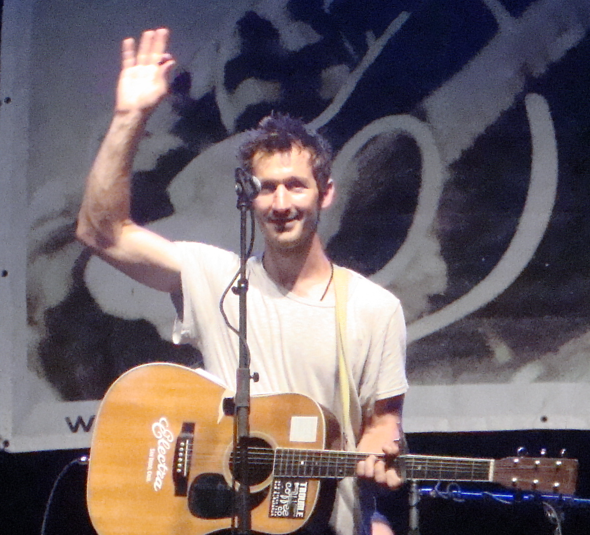 Griffin House making his debut performance at the 2013 Woody Guthrie Folk Festival. Taken at the Pastures of Plenty stage on July 13, 2013.